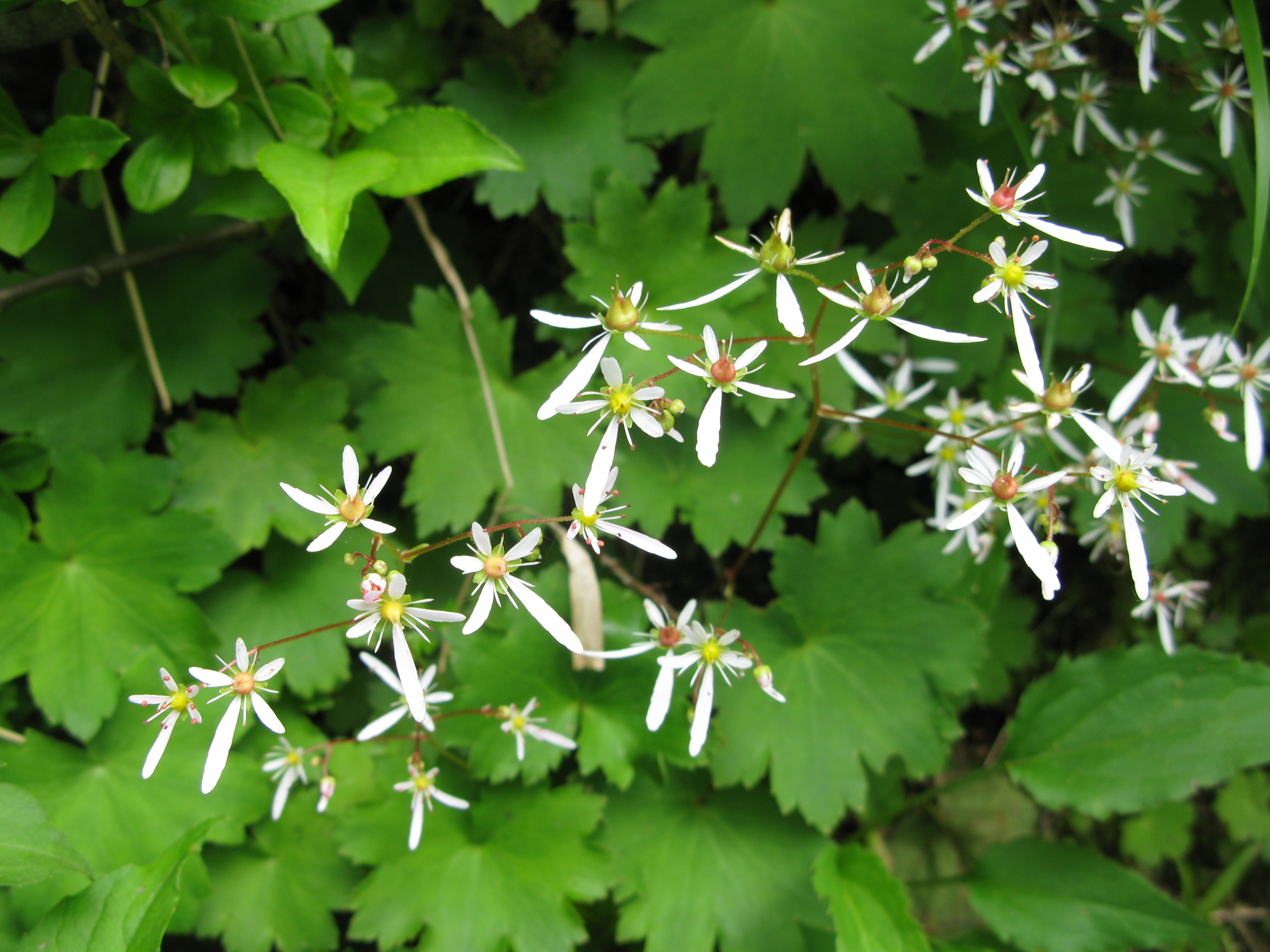 Saxifraga fortunei var. alpina, Mt. Iide, Fukushima pref., Japan